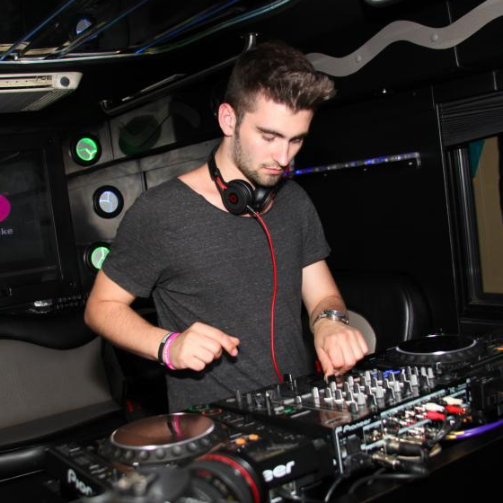 MOX || REVEALED Bus Party || HARDWELL || DYRO || DANNIC